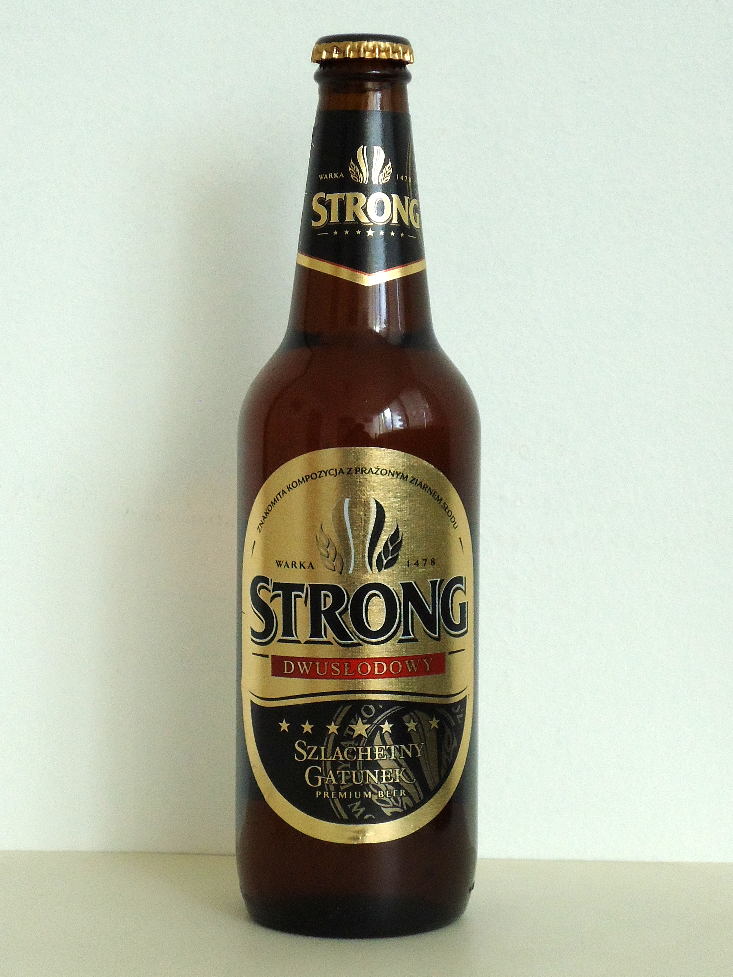 Strong Szlachetny Gatunek beer